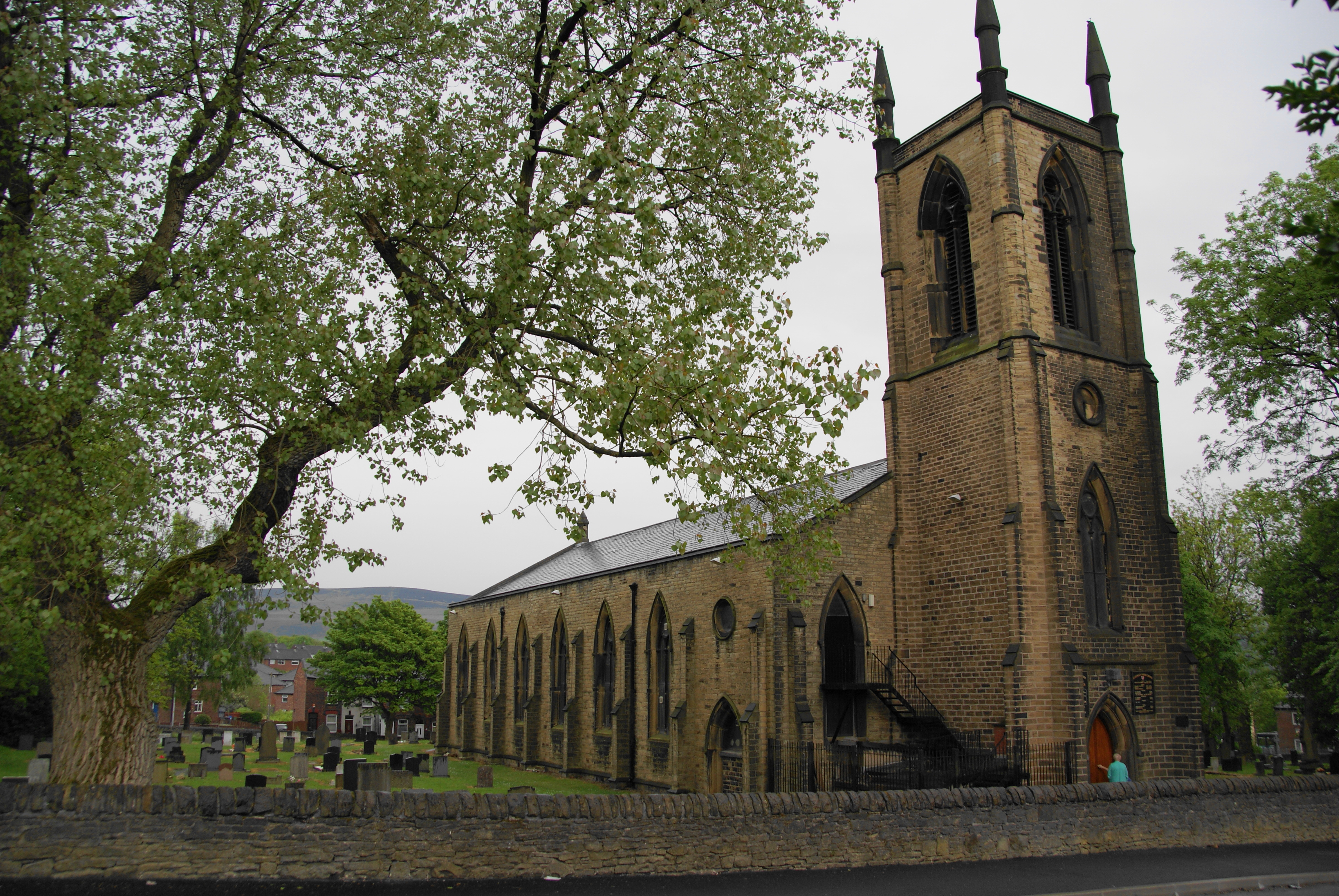 St George's Church, Stalybridge, near to Stalybridge, Tameside, Great Britain. This is the 'new' church which was consecrated in 1840. The 'old' church used to be round the corner on Cocker Hill.